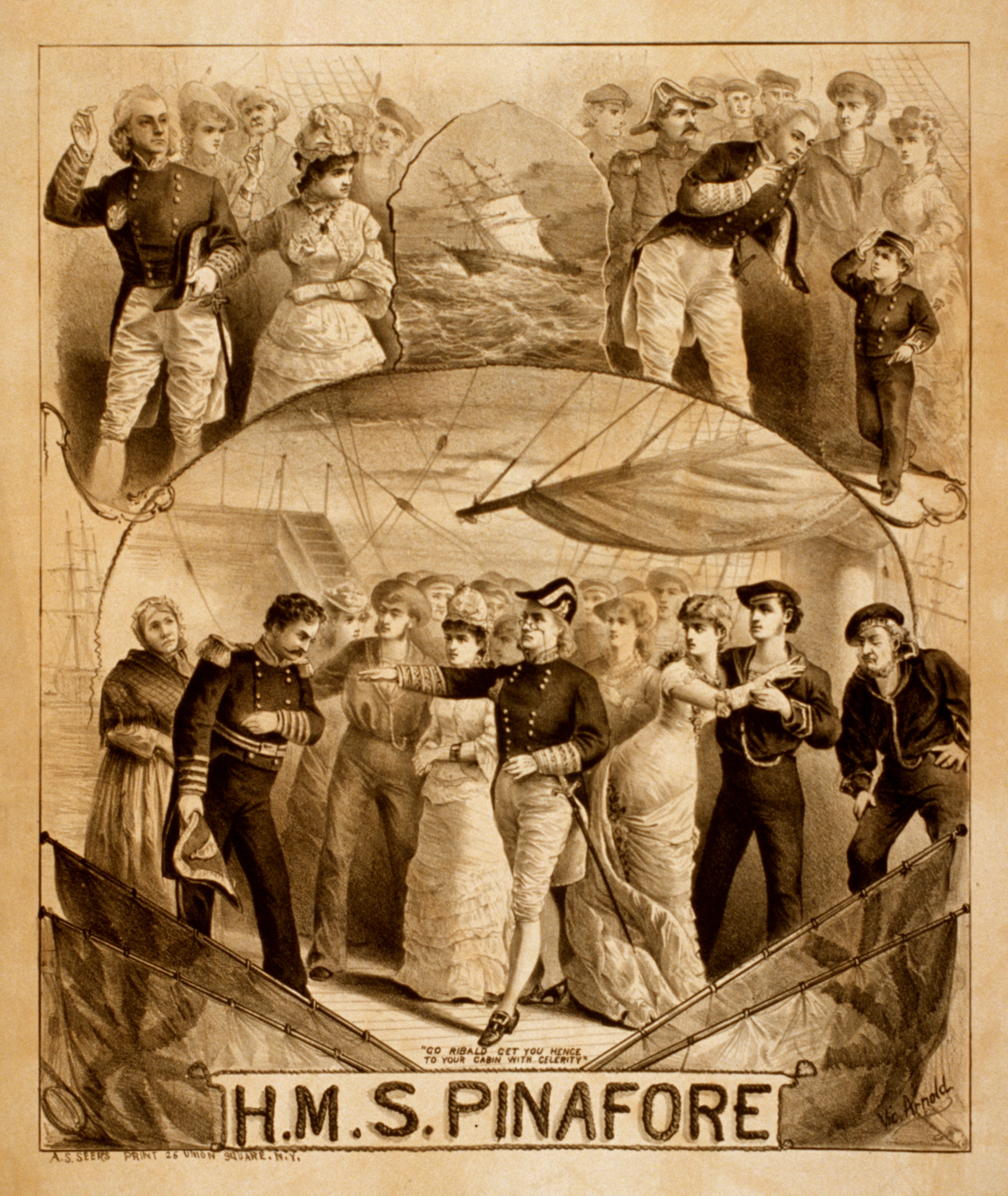 A lithographic poster for one of the many American productions of H.M.S. Pinafore, mostly unlicenced.